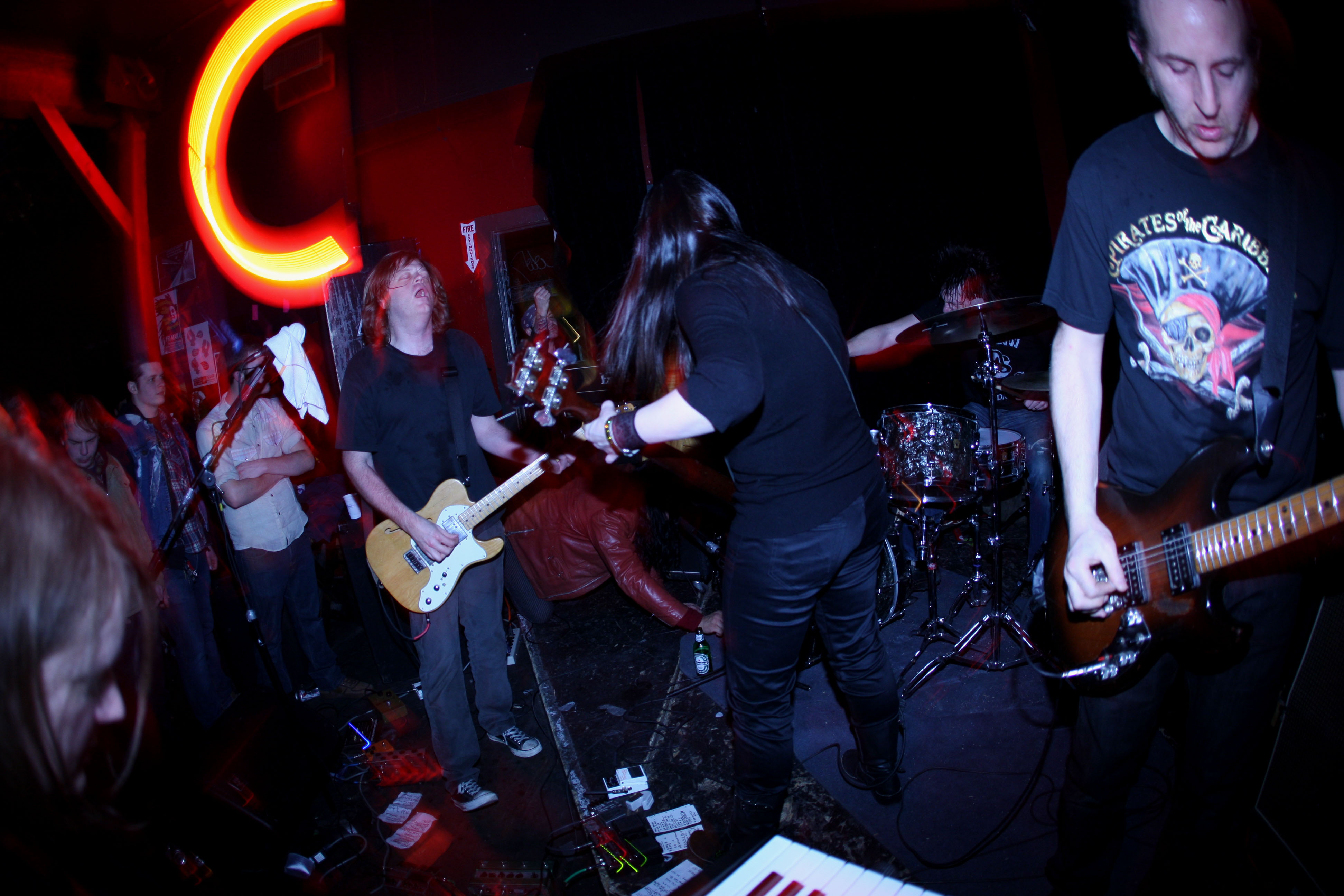 Kinski at the Comet